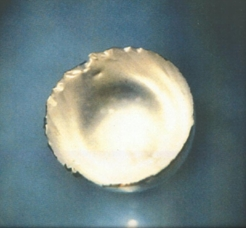 A fermium-ytterbium alloy used for measuring the enthalpy of vaporization of fermium metal. The fermium content of this fermium alloy is 4 × 10−5 weight percent.